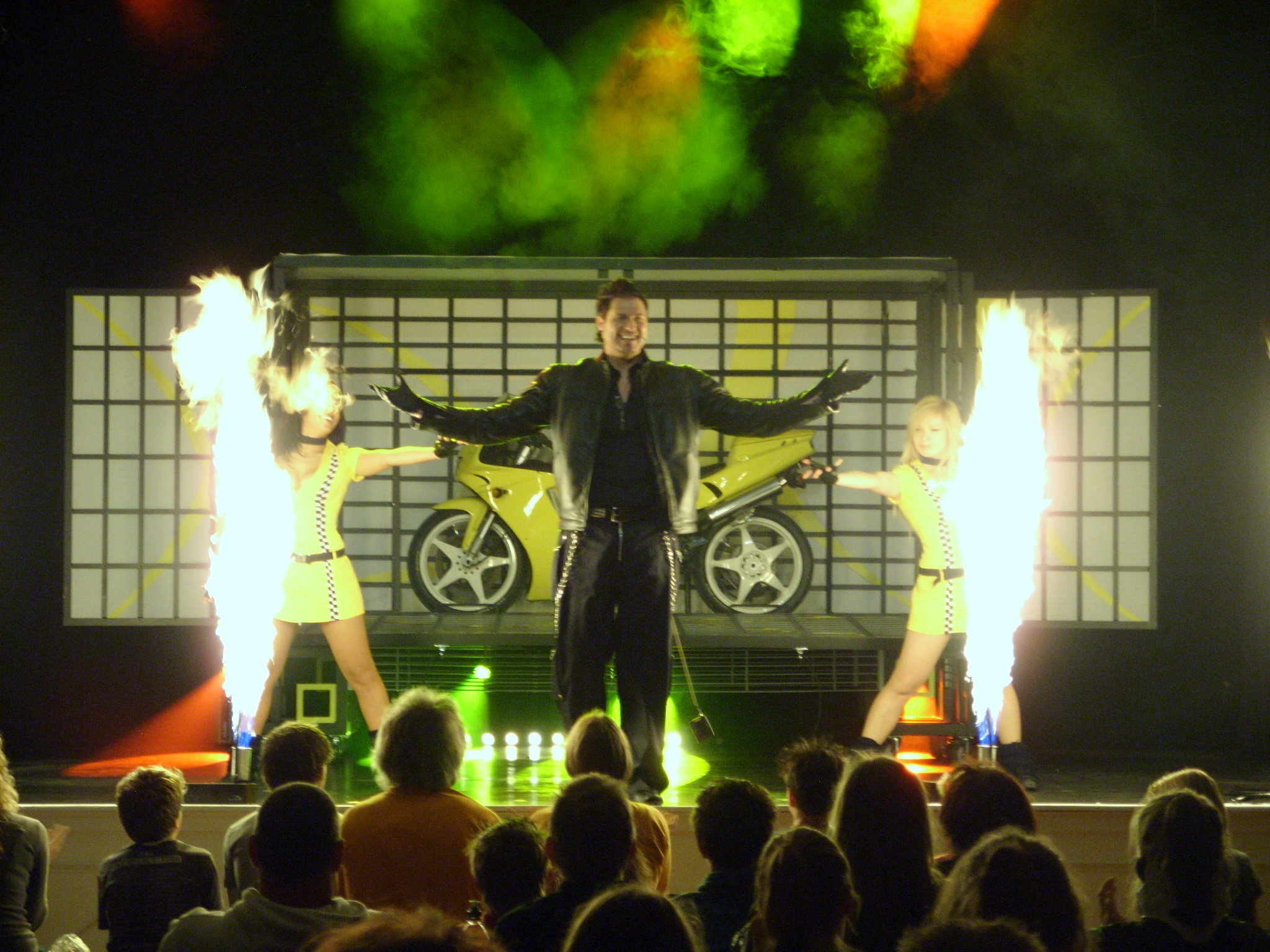 Christian Farla produces a Motorcycle by magic